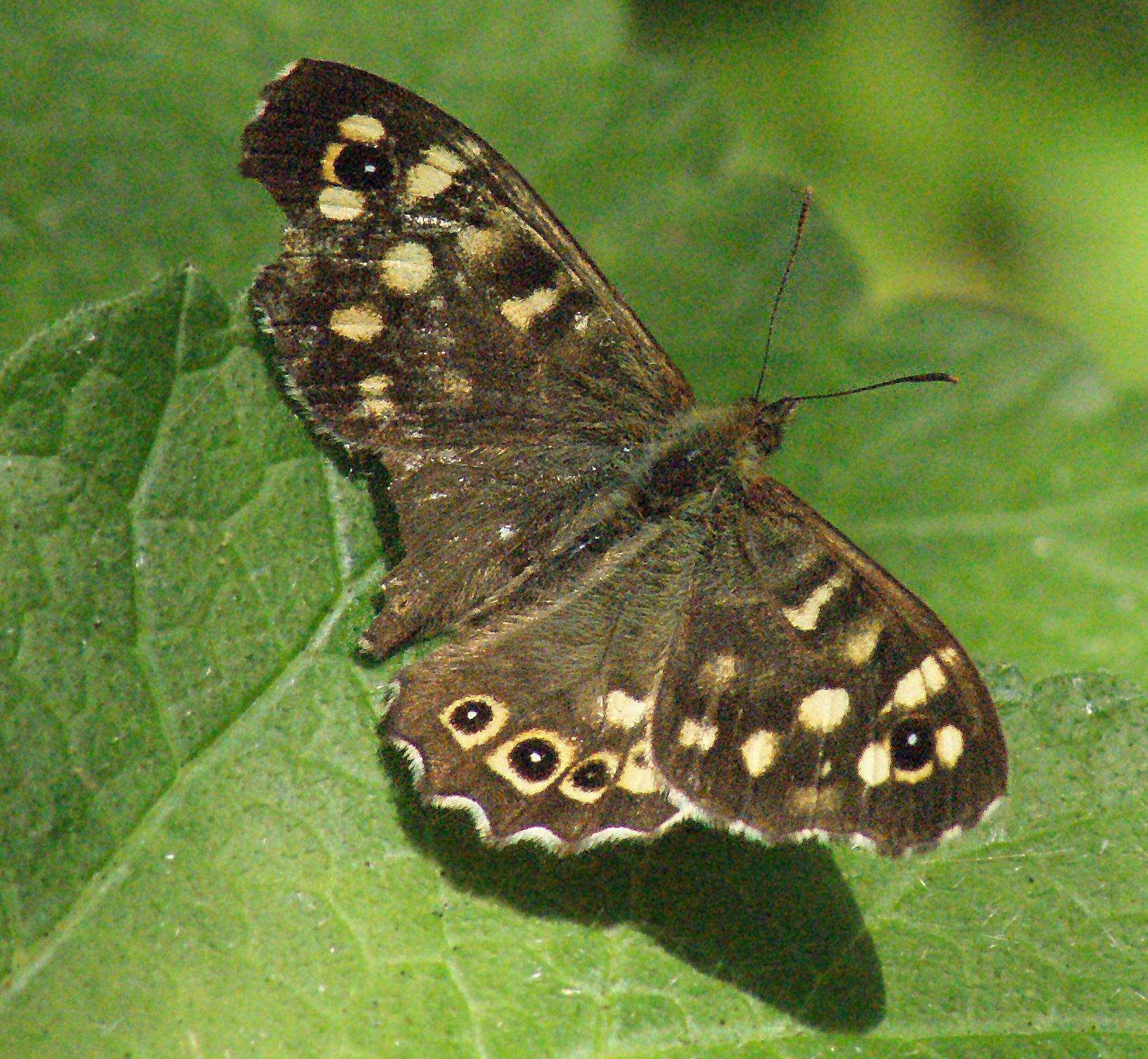 Speckled Wood butterfly, Pararge aegeria, with left hind wing heavily damaged by insect-eating birds. The three eyespots have been completely destroyed, but the insect is alive and able to fly.